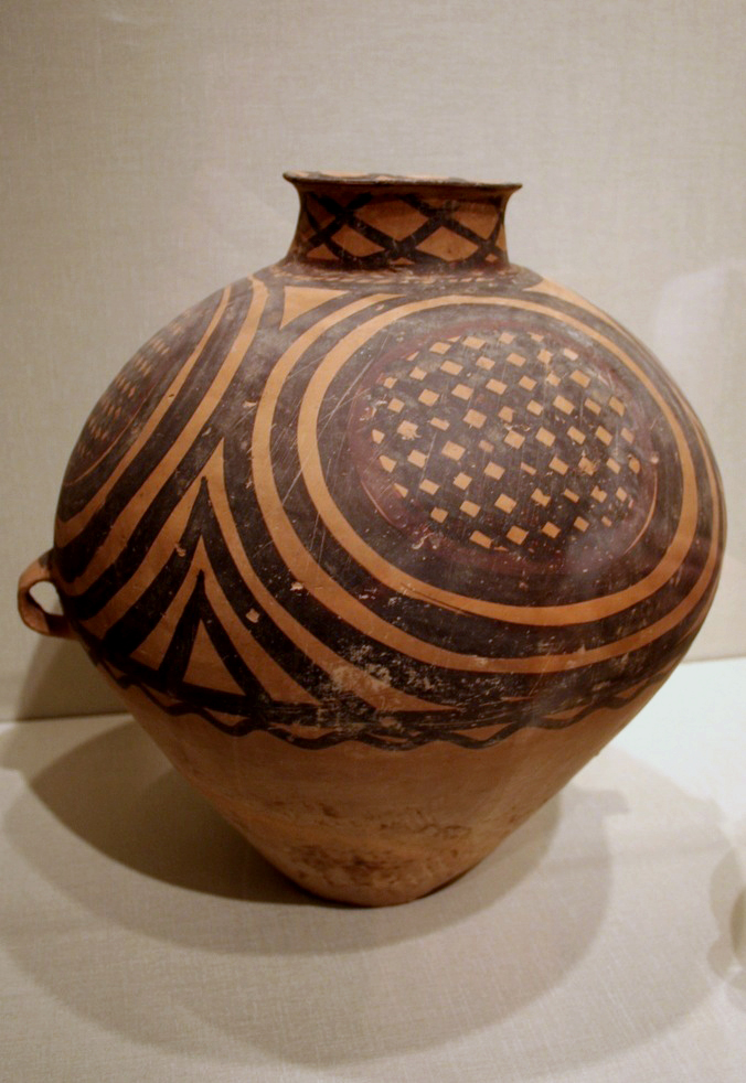 Storage Jar with Check Pattern China, Neolithic period, Yangshao culture, Banshan phase. Ca. 2,500-2,000 B.C. Painted earthenware Gift of John Young, 1993 (7168.1) Wikipedia Loves Art at the Honolulu Academy of Arts This photo of item # 7168.1 at the Honolulu Academy of Arts was contributed under the team name "department_of_trife" as part of the Wikipedia Loves Art project in February 2009. Honolulu Academy of Arts The original photograph on Flickr was taken by christopherhu—please add a comment to the original Flickr page whenever a use has been made on Wikipedia or another project. Project galleries on Flickr: this institution, this team